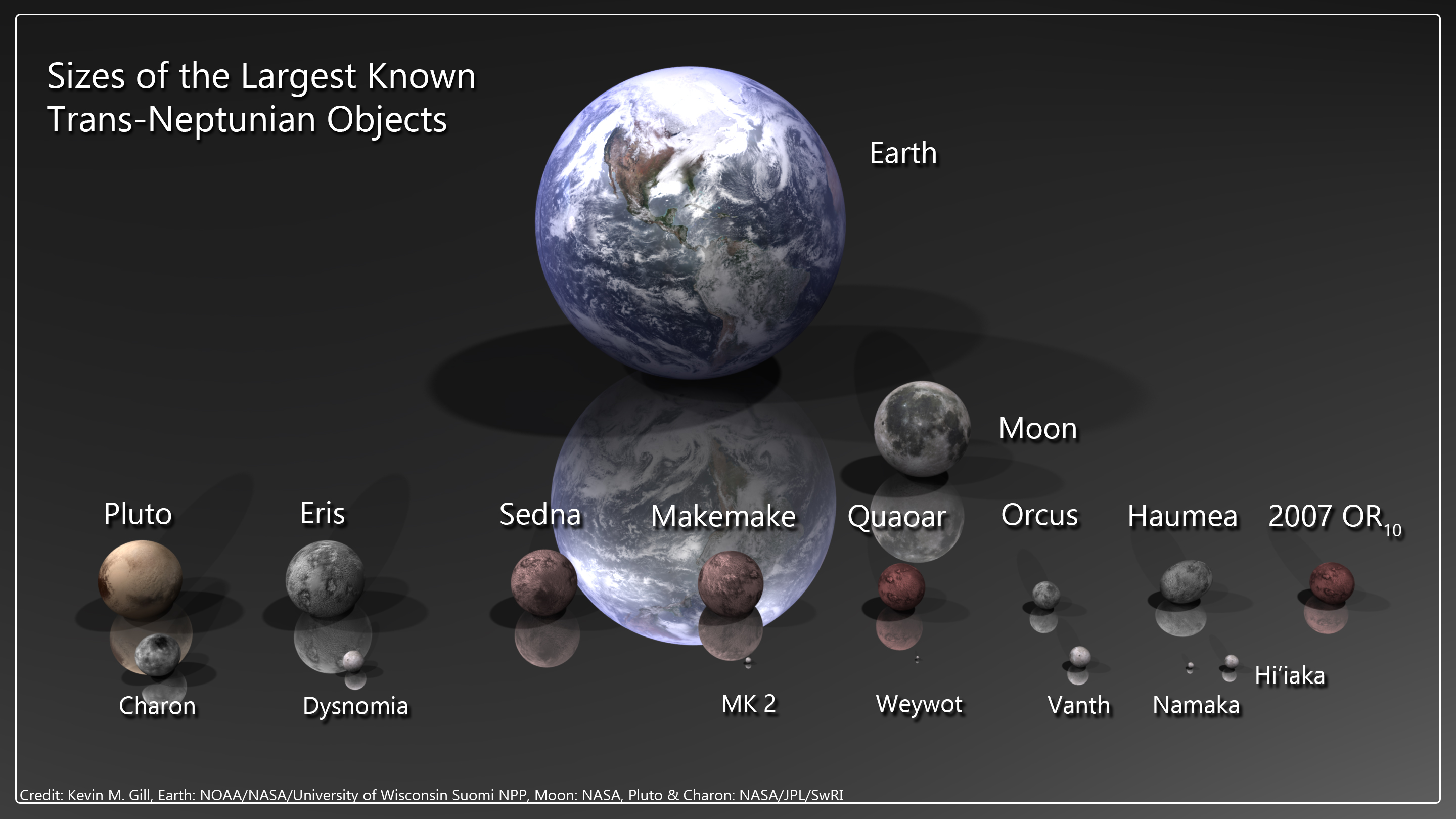 Updated for S/2015 (136472) 1 (MK2), and imagery.